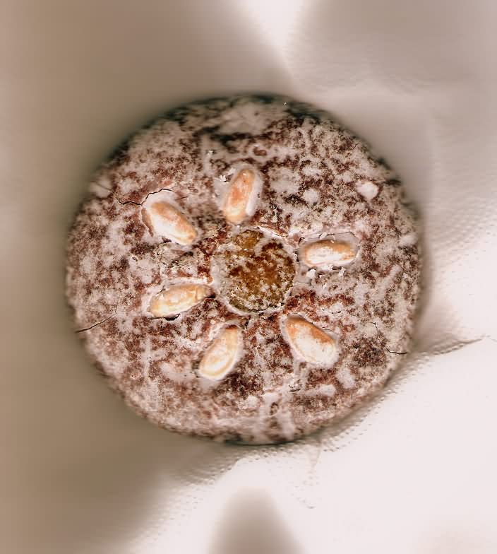 Nuremberg Gingerbread with almonds Scan by Dominik Hundhammer, Munich, Dec. 2005.